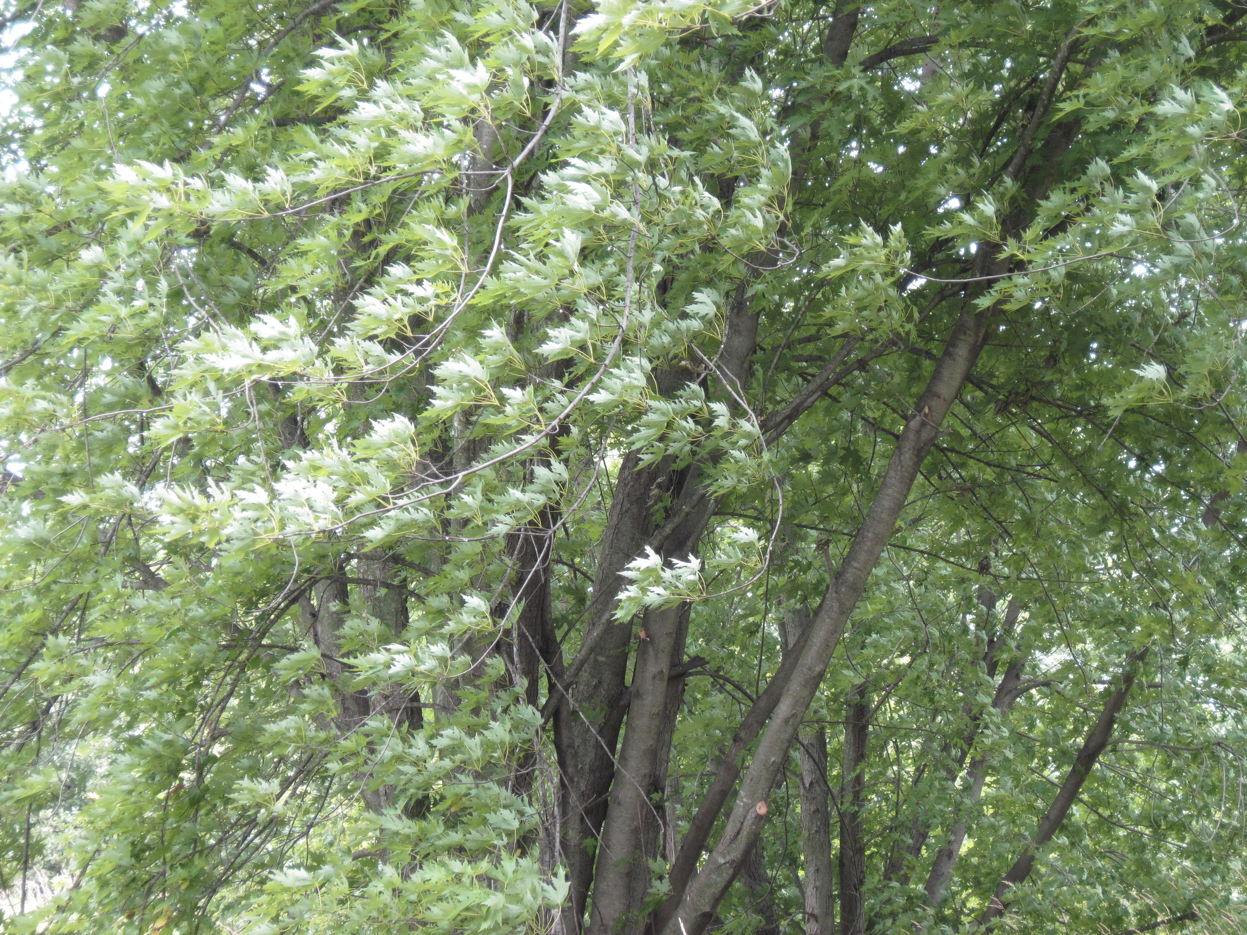 Acer saccharinum, Grimes Farm Nature Center, Marshalltown, Iowa